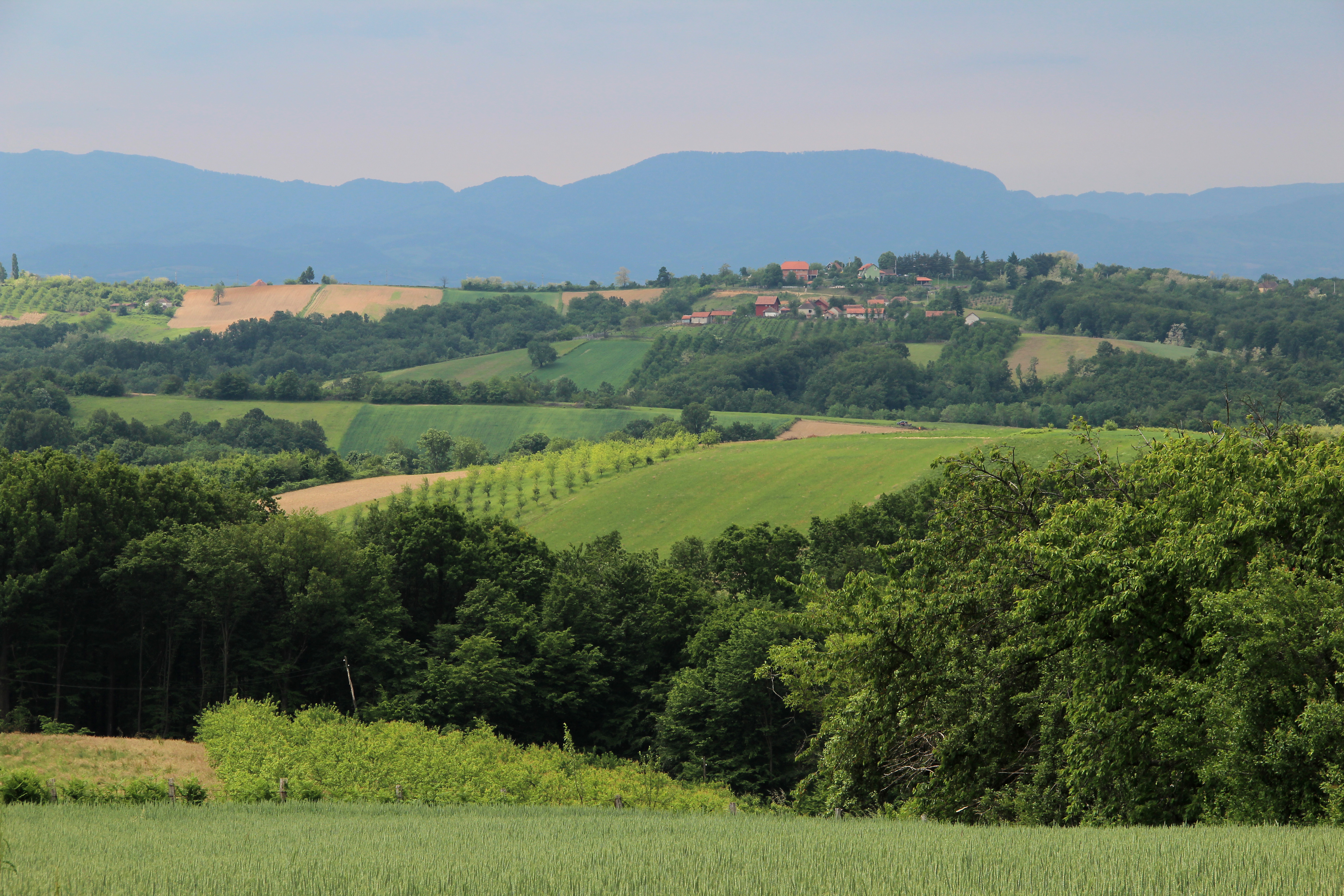 Rabas village - Municipality of Valjevo - Western Serbia - Panorama 10